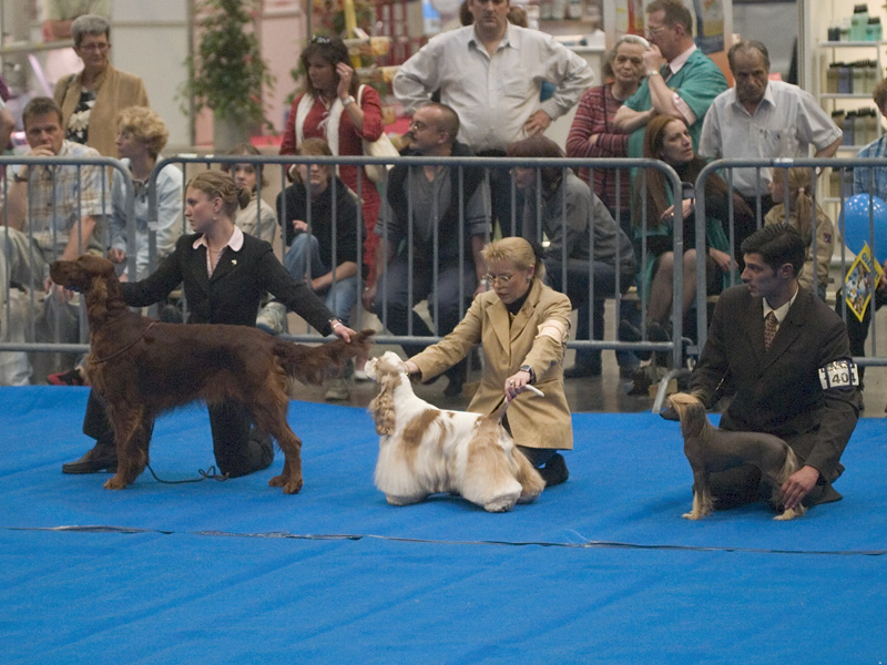 Best in Show at the IHA St. Gallen 2005